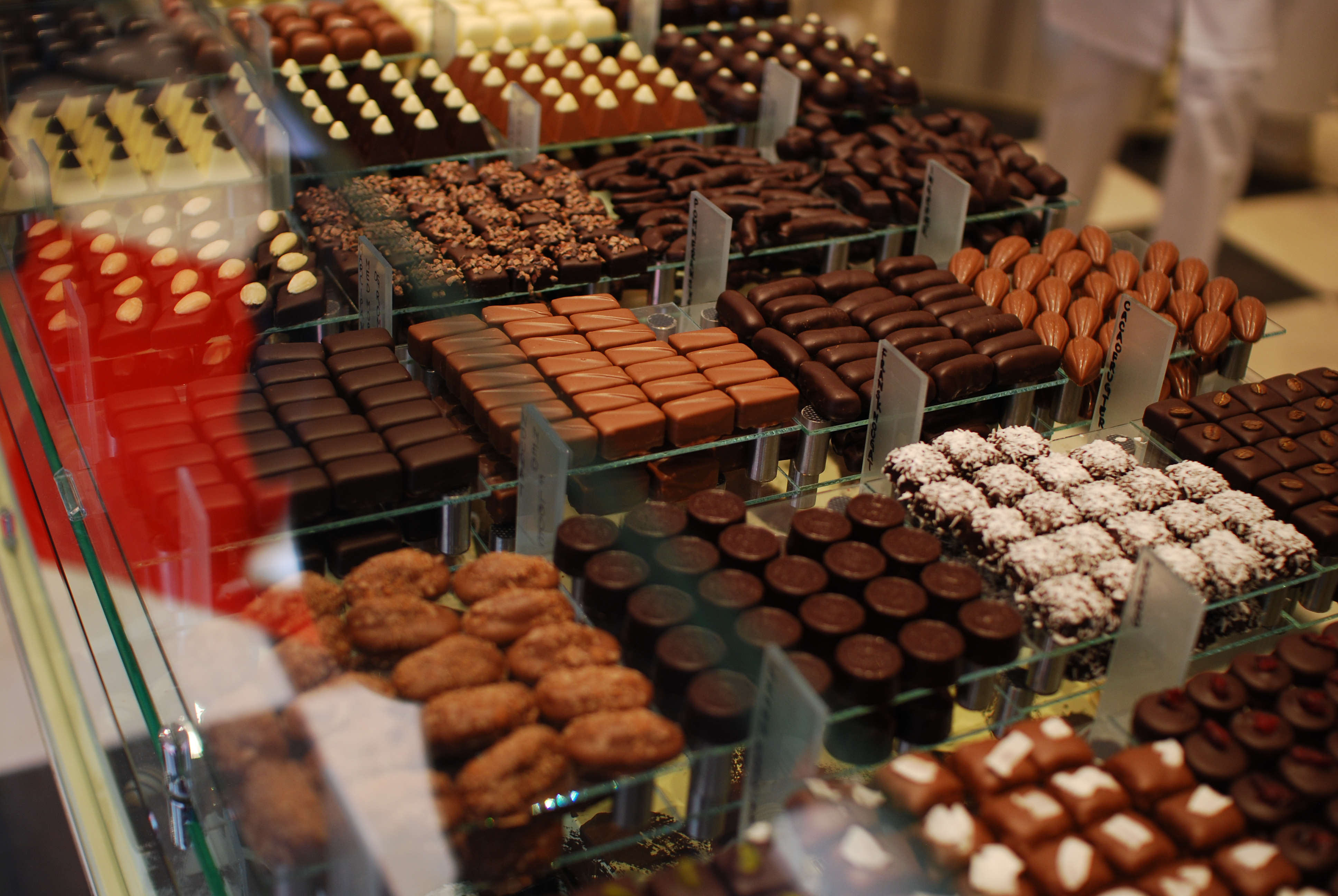 Peter Beier chocolates photographed in the Peter Beier chocolate store in the Rotonda iat Strandvejen in Hellerup, Copenhagen, Denmark